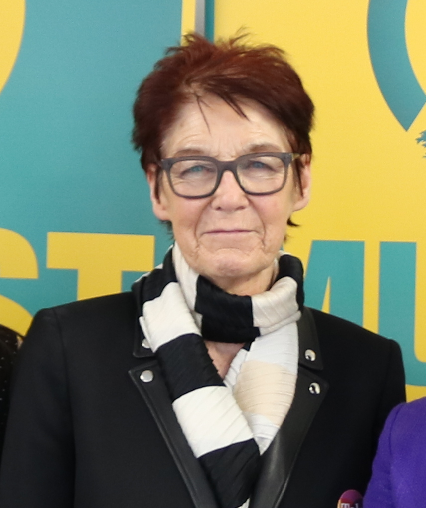 Left to right: John Finucane, Megan Fearon MLA, Ailbhe Smith, Mary Lou McDonald TD, Louise O'Reilly TD, and Jonathan O'Brien TD